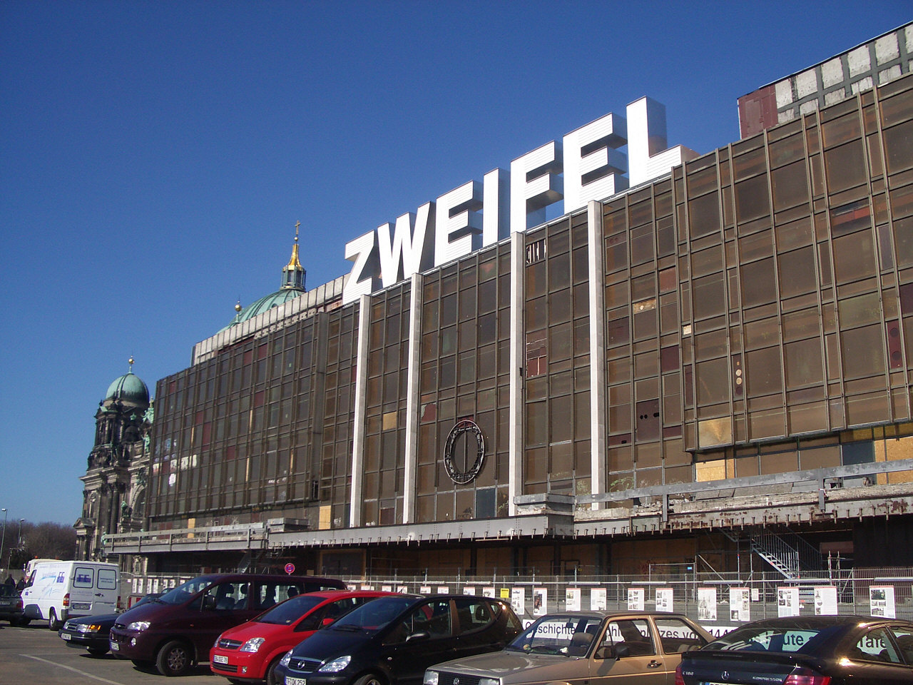 Palace of Doubt. The German word "Zweifel" means doubt. Neon installation by Lars Ramberg at the Palast der Republik, Schlossplatz, Berlin, Germany